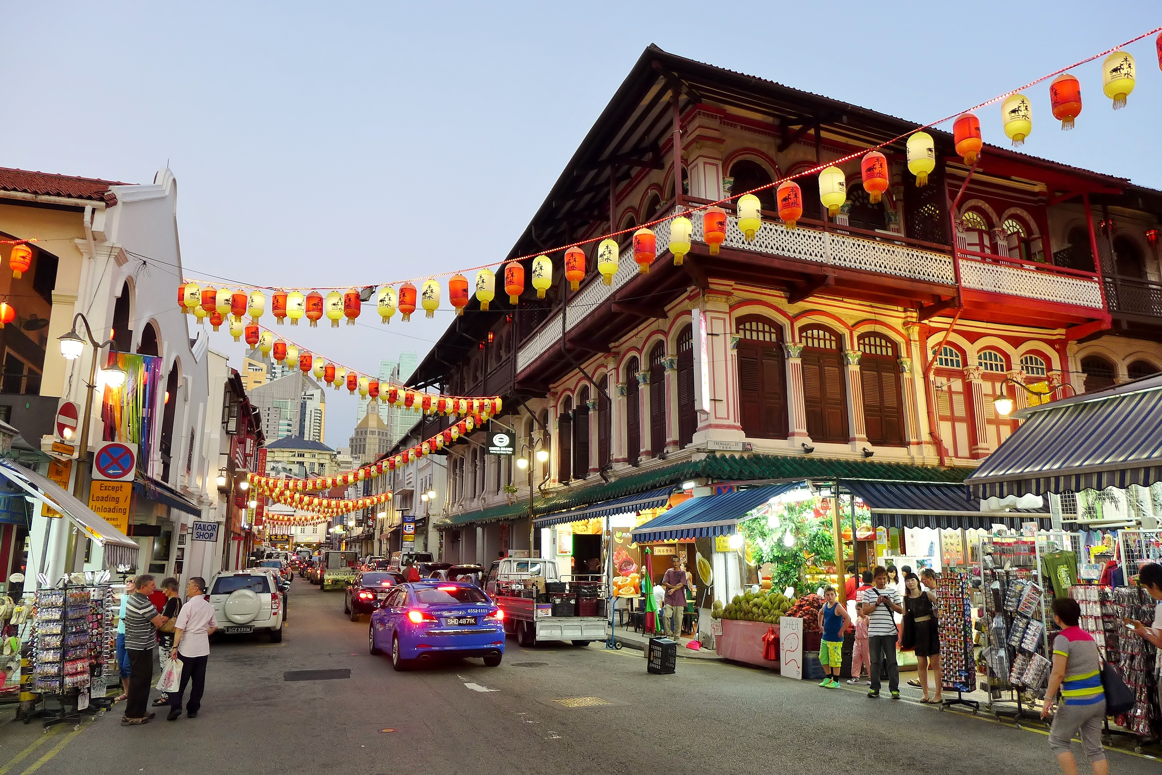 View of Temple Street, Singapore.